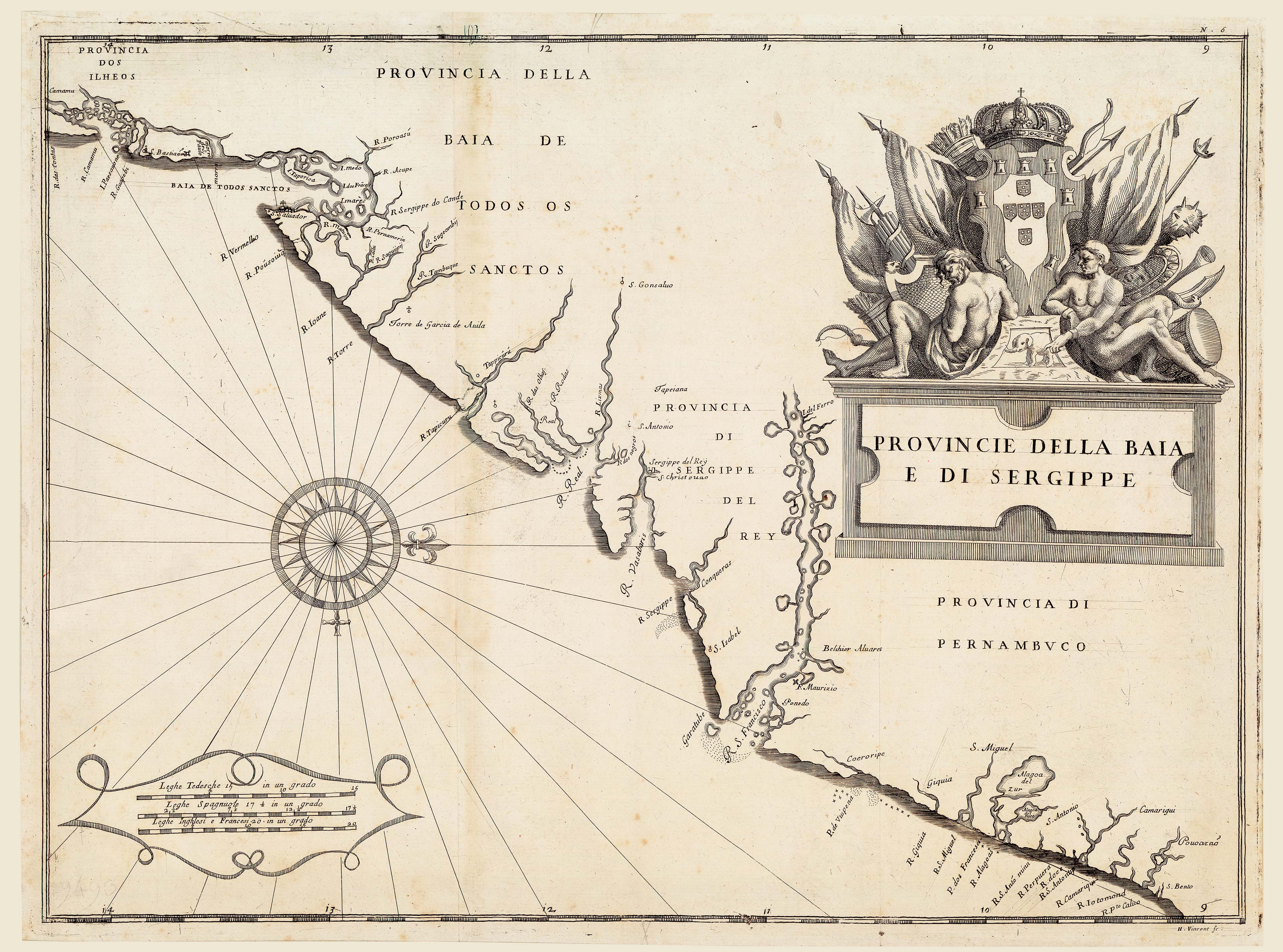 Baia and Sergipe Captainces